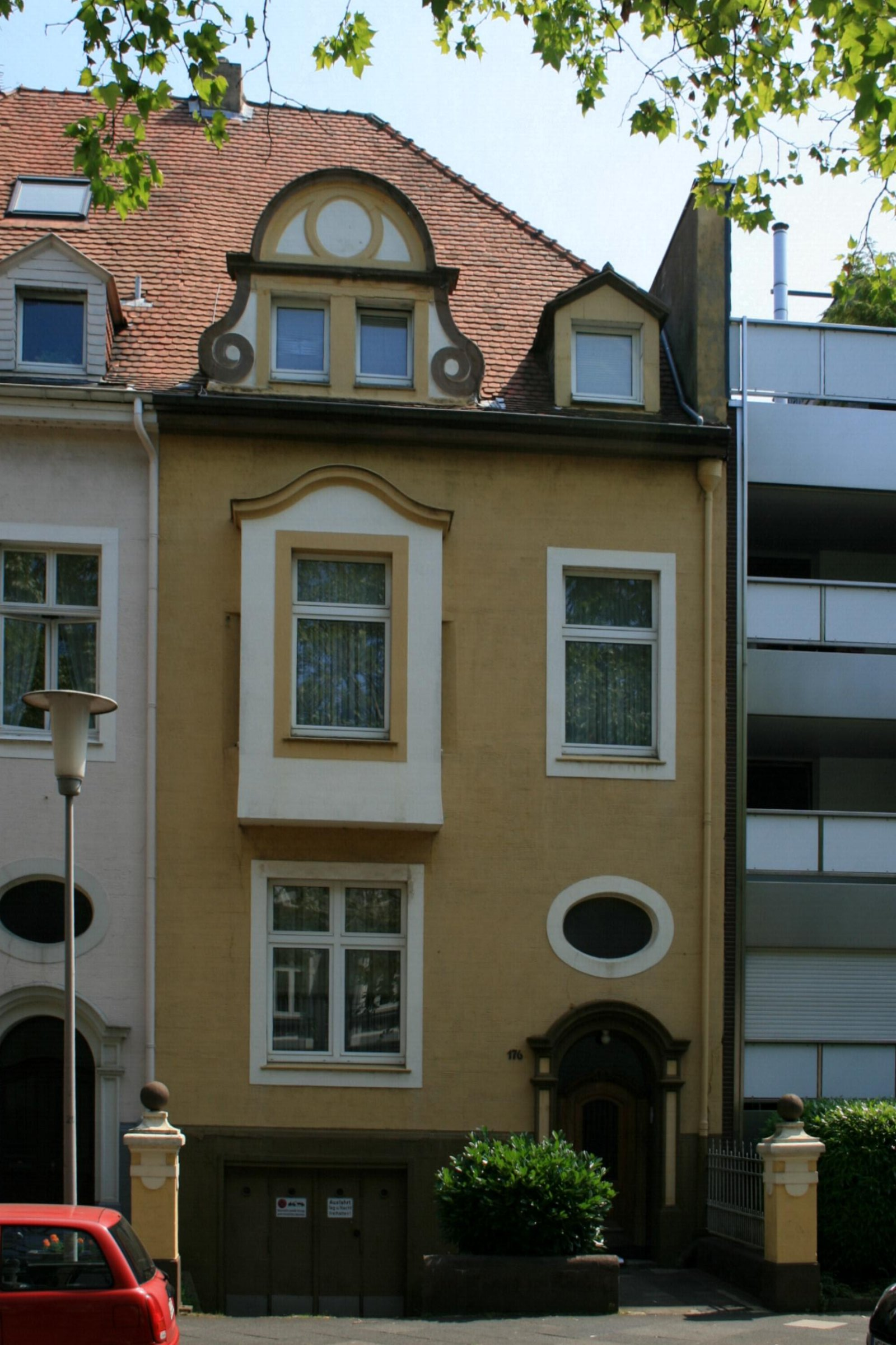 Cultural heritage monument No. B 095 in Mönchengladbach